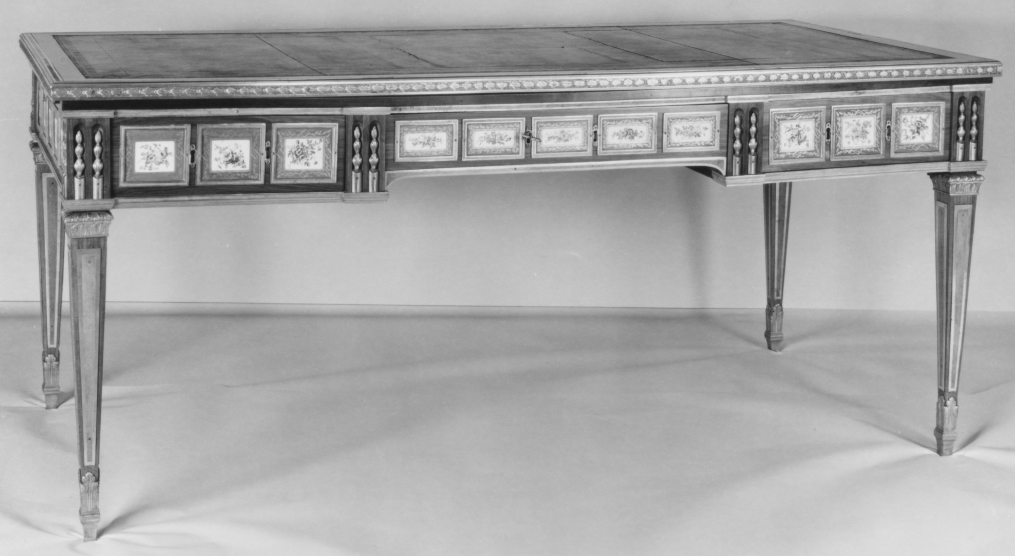 French, Paris and Sèvres; Table; Woodwork-Furniture